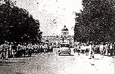 Siamese Revolution 1932